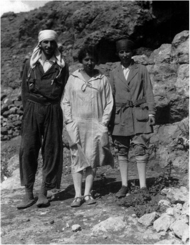 Dorothy Garrod and two colleagues in 1928